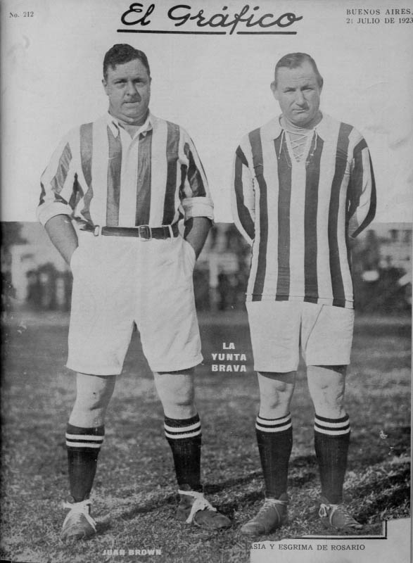 Juan and Jorge Brown, footballers of legendary team Alumni Athletic Club, during a friendly match played by Alumni's former players, in 1923. The club had retired from official competitions in 1911.